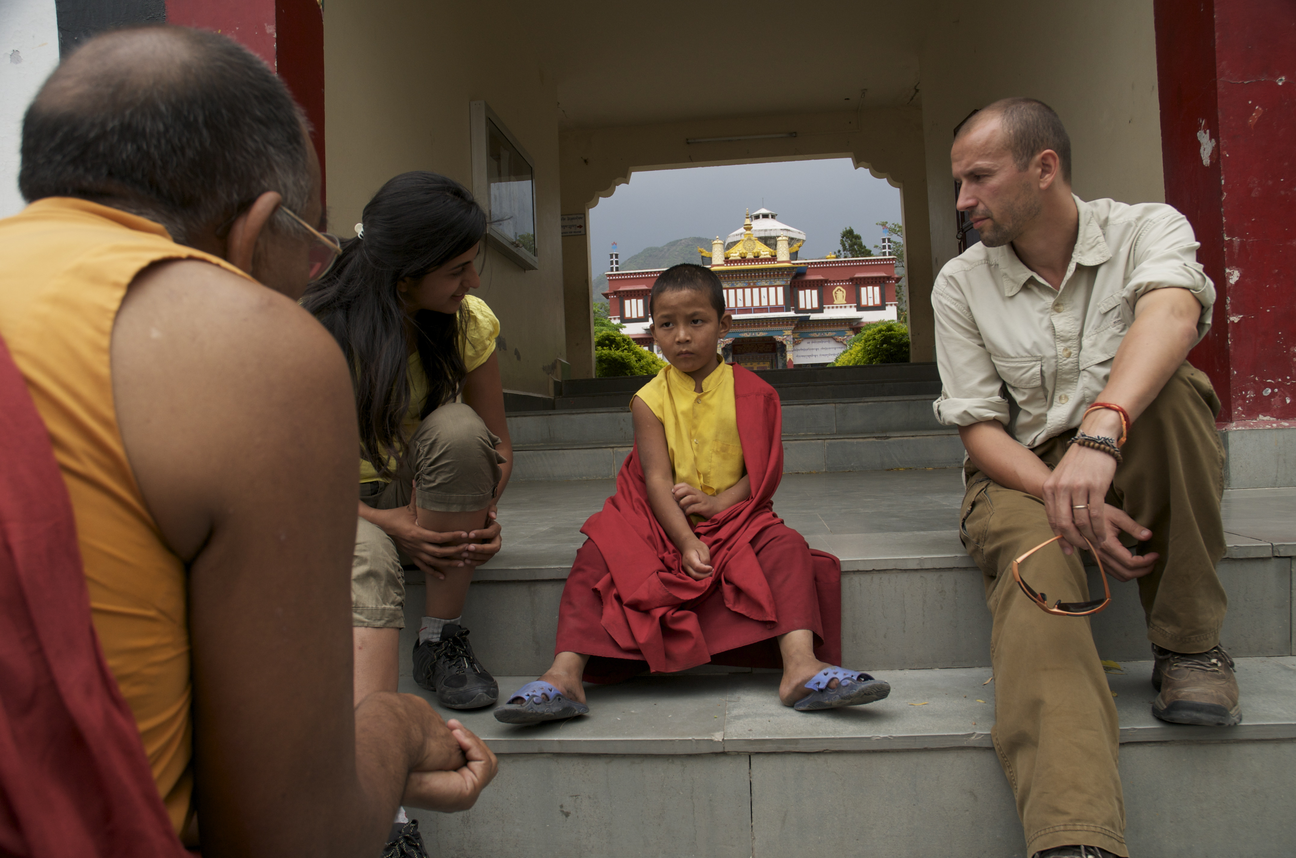 The Filmmaker Dirk Simon with actors of his documentary "When The Dragon Swallowed The Sun" 2010 in Tibet